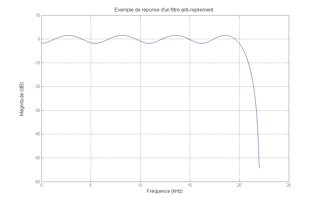 Example of an anti-aliasing filter